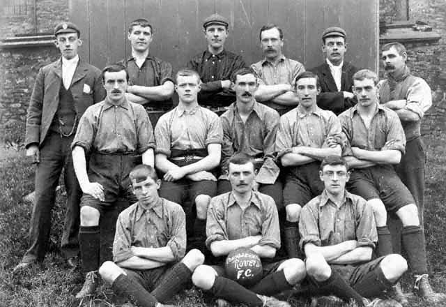 Monotone Photographic Print of the Oswaldtwistle Rovers football team in the 1890s. Original Size: 150mm x 105mm.